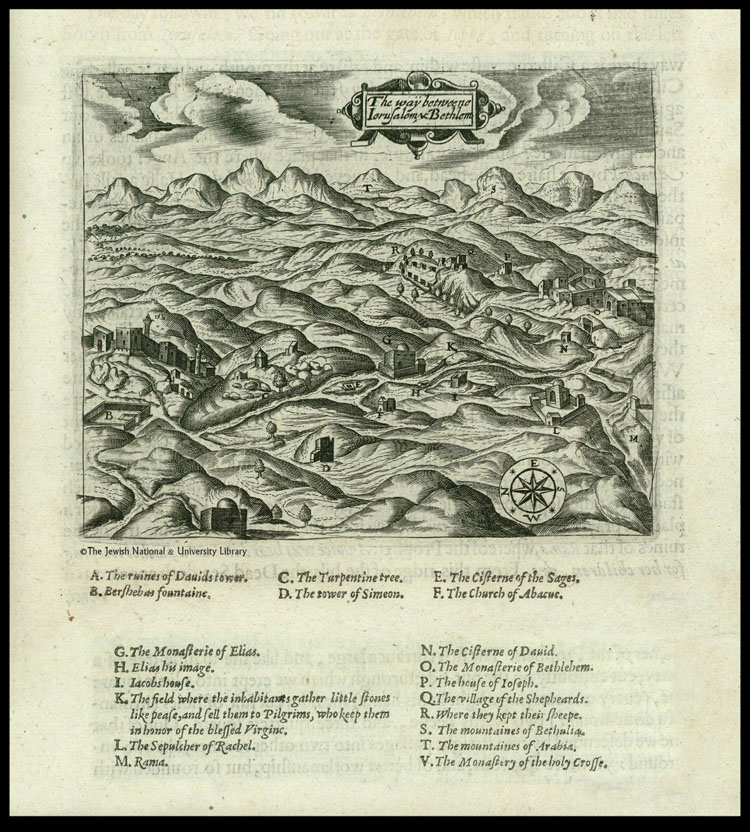 The way betweene Ierusalem and Bethlem 1621